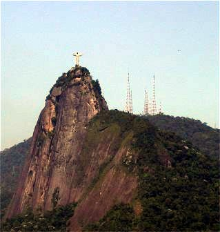 Description: Corcovado mountain in Rio. This photo was taken by Michael Santos, known on Wikipedia as Tobycat. Below is my release statement.Tobycat The photo was taken in 2003. This photo was initially uploaded to appear on the Corcovado entry page to replace the image of the mountain-top statue. The focus of the page is the mountain itself. There is a separate page for the Christo statue atop the mountain.